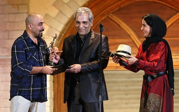 15th Iran Cinema Celebration, Masoudieh Palace